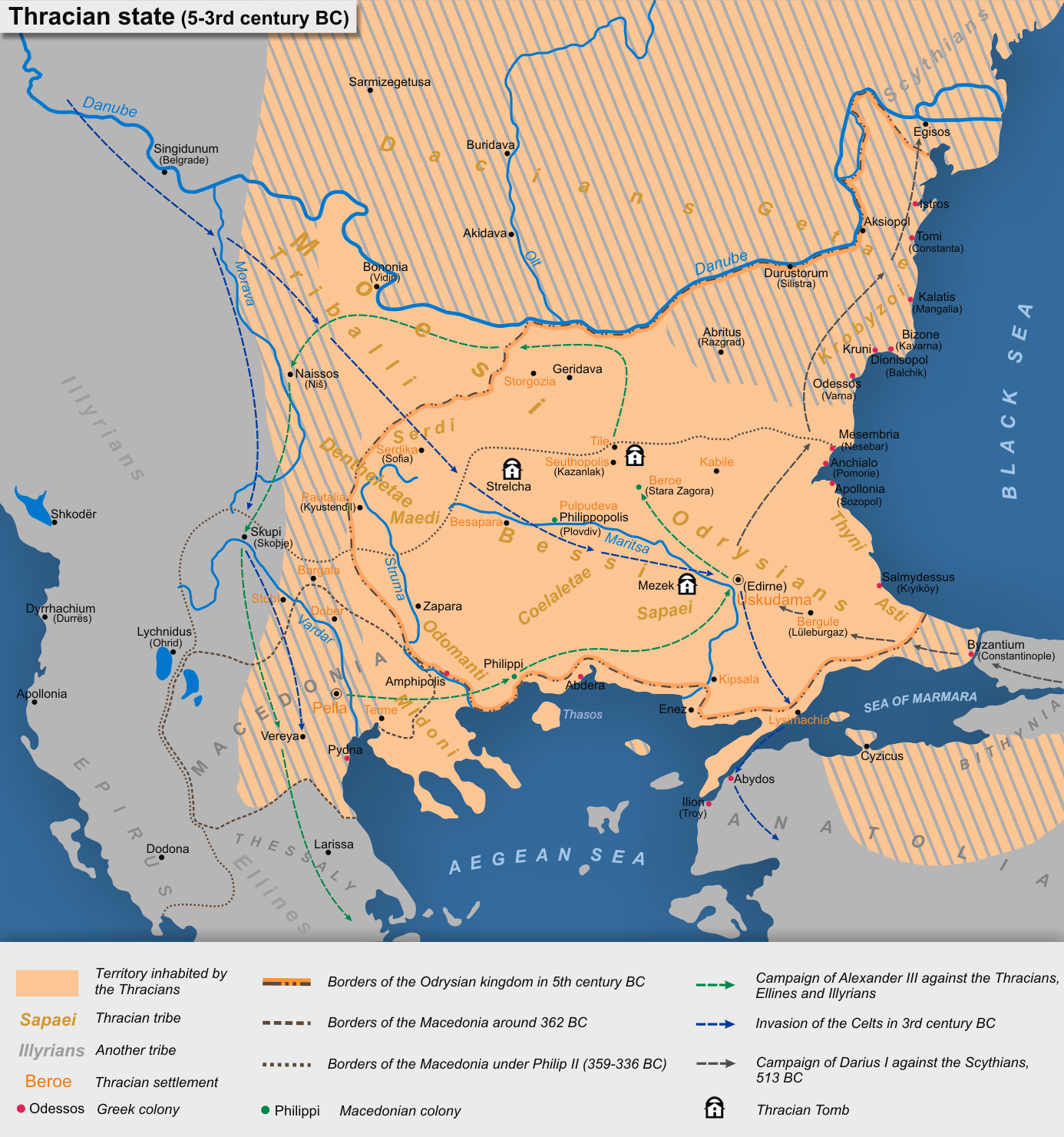 Tracian state (5-3rd century BC)